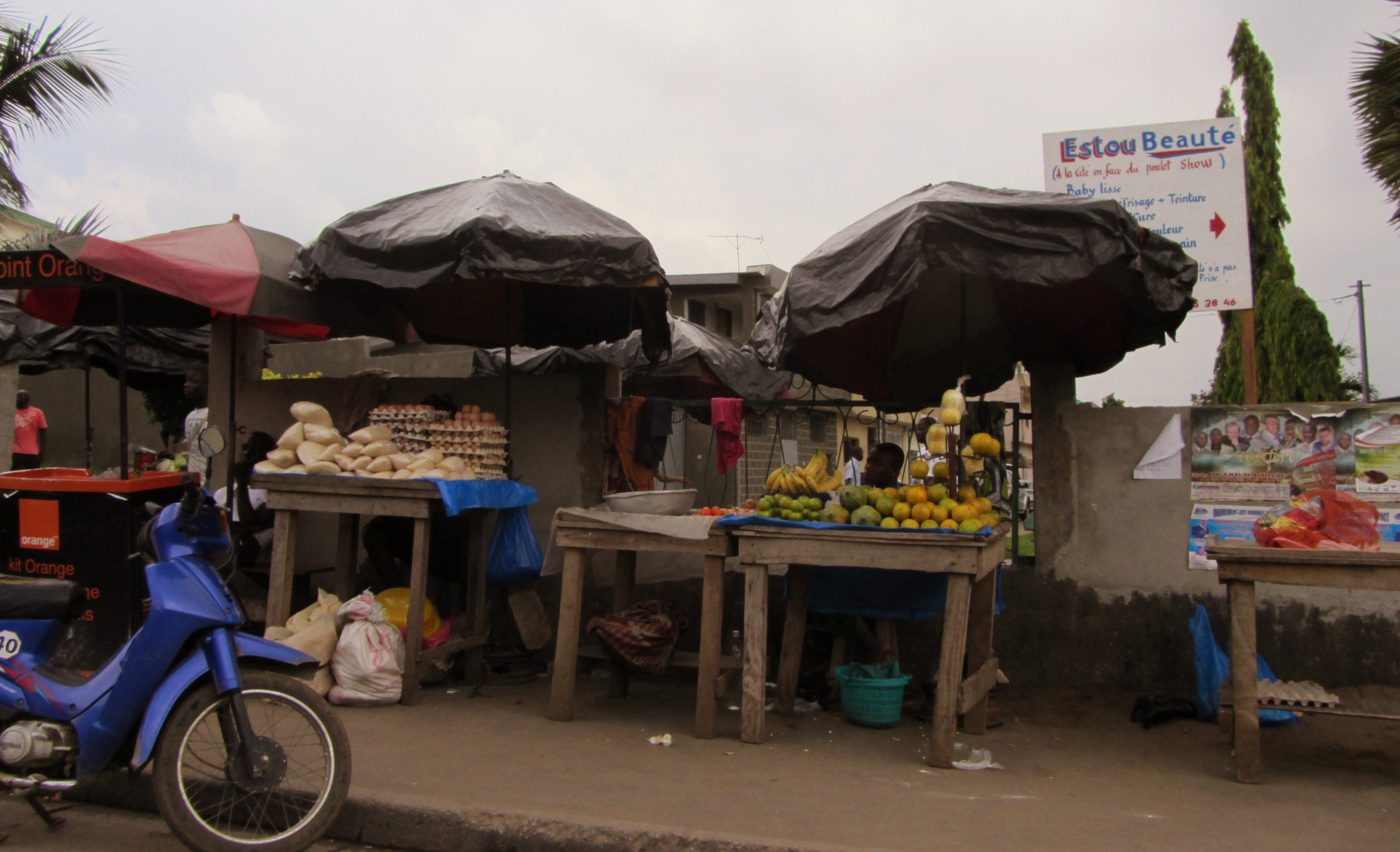 Street sellers in Abidjan (Côte d'Ivoire)